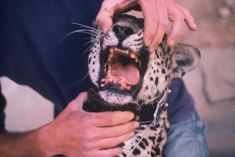 Leopard in the Judean desert photographed by